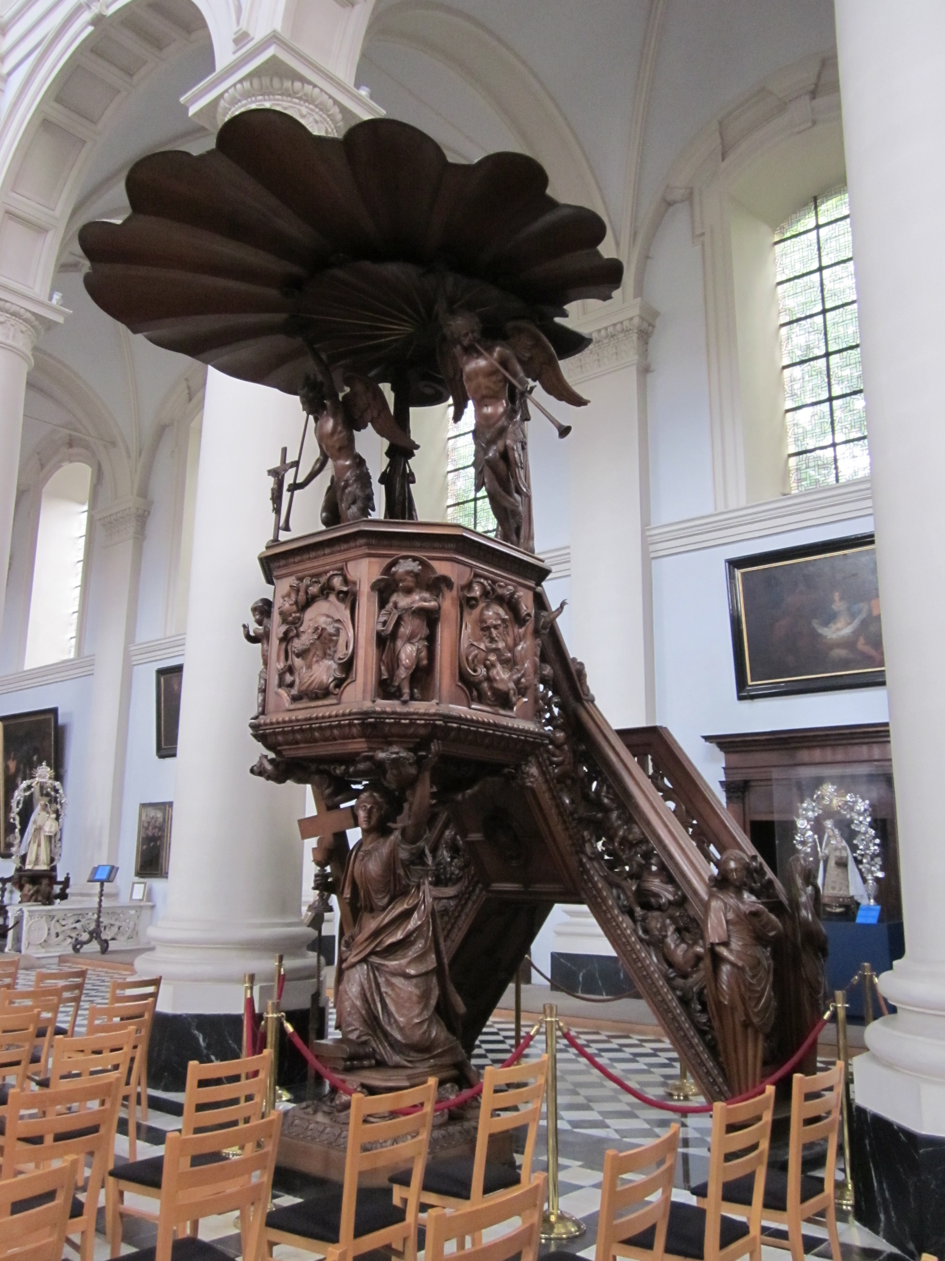 Pulpit in the Church of Saint Walburga in Bruges, Belgium, work of Artus Quellinus II.